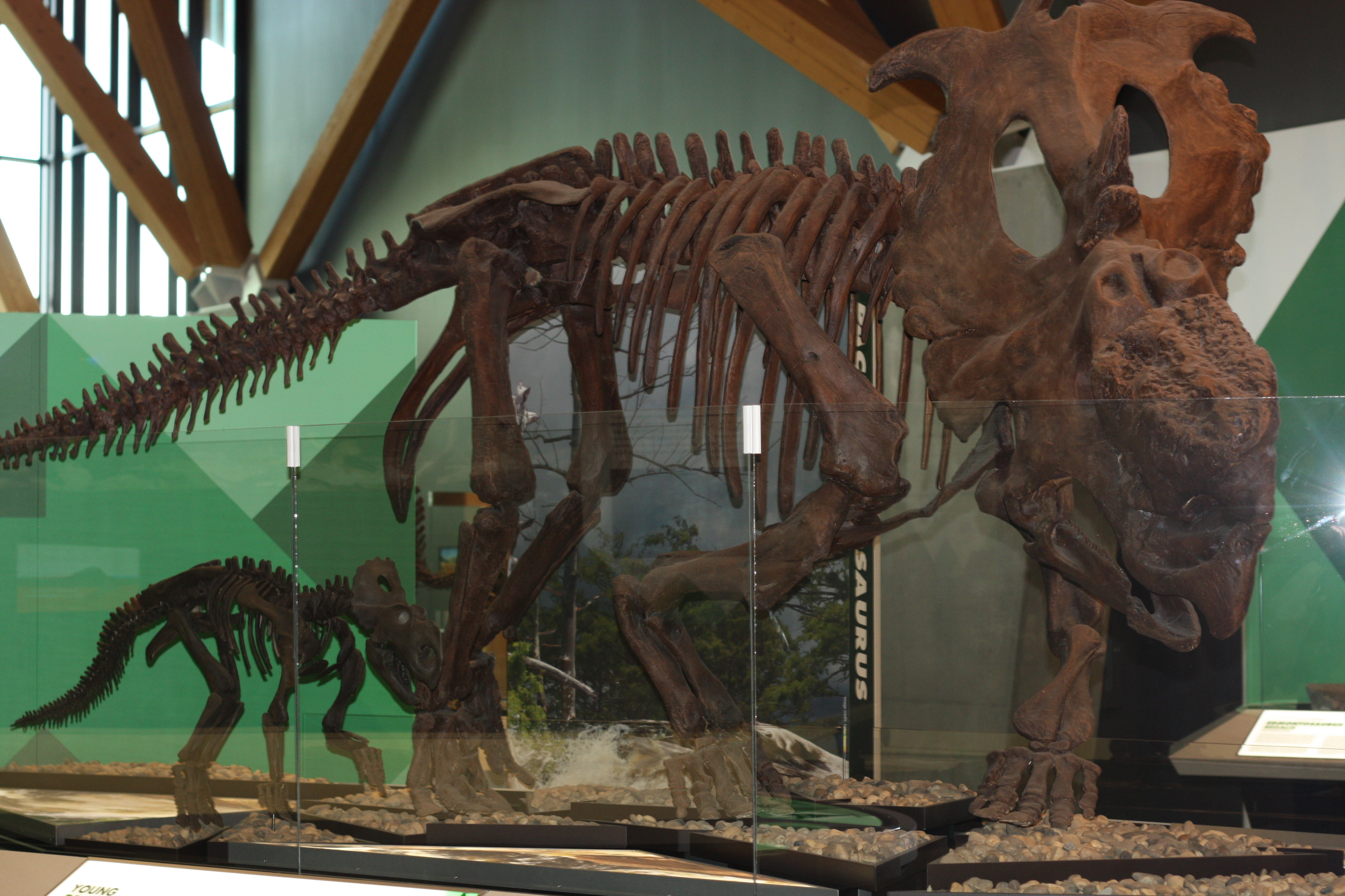 Philip J. Currie Dinosaur Museum's Pachyrinosaurus lakustai and young Pachyrinosaurus fossils.